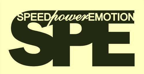 SPE